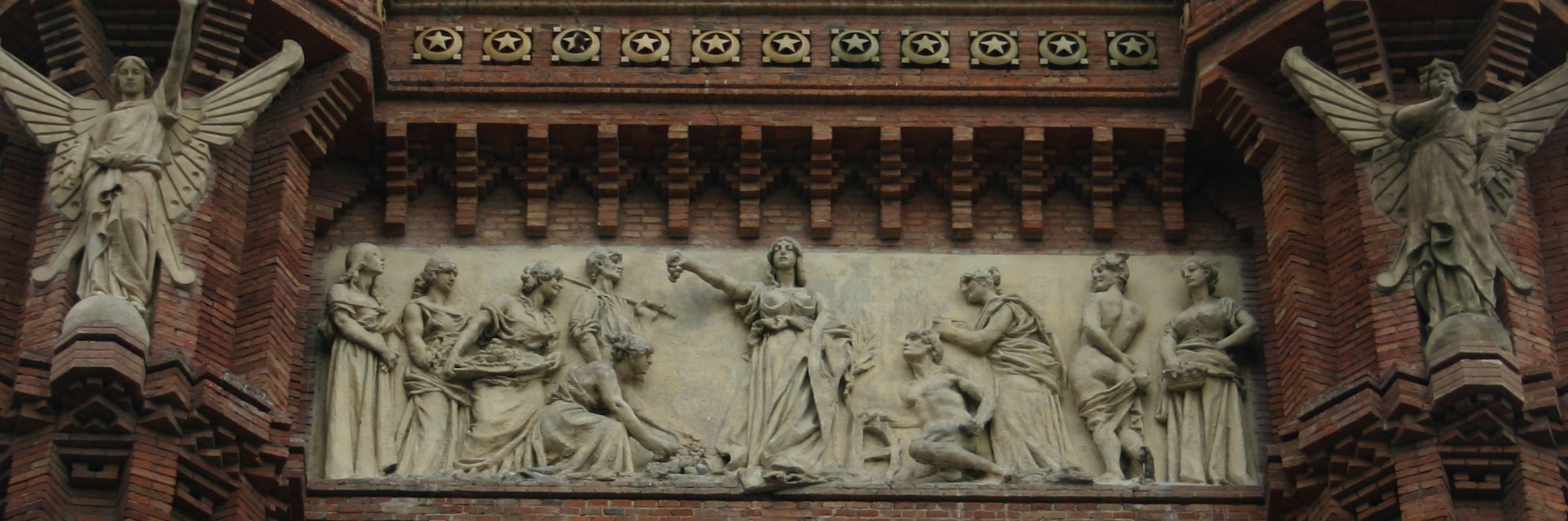 Triumphal Arch relief by Antoni Vilanova Author: Year of the dragon